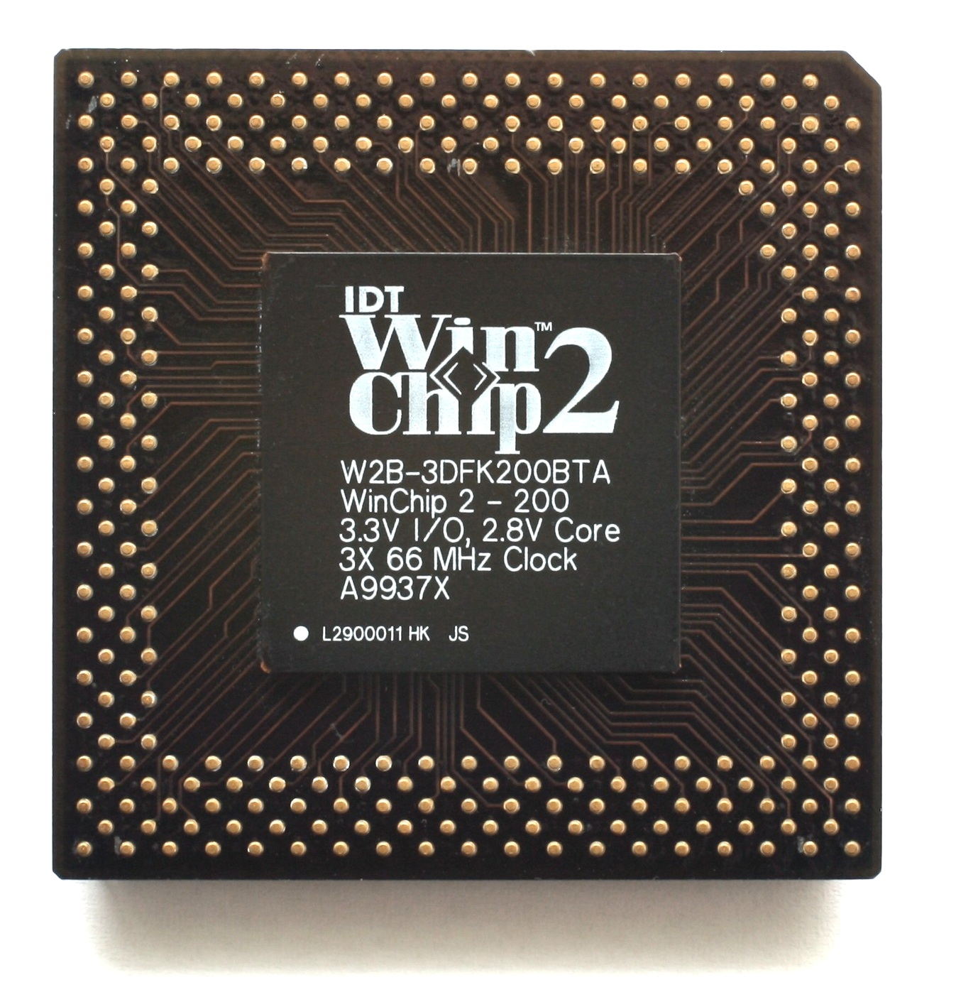 CPU IDT WinChip2 B